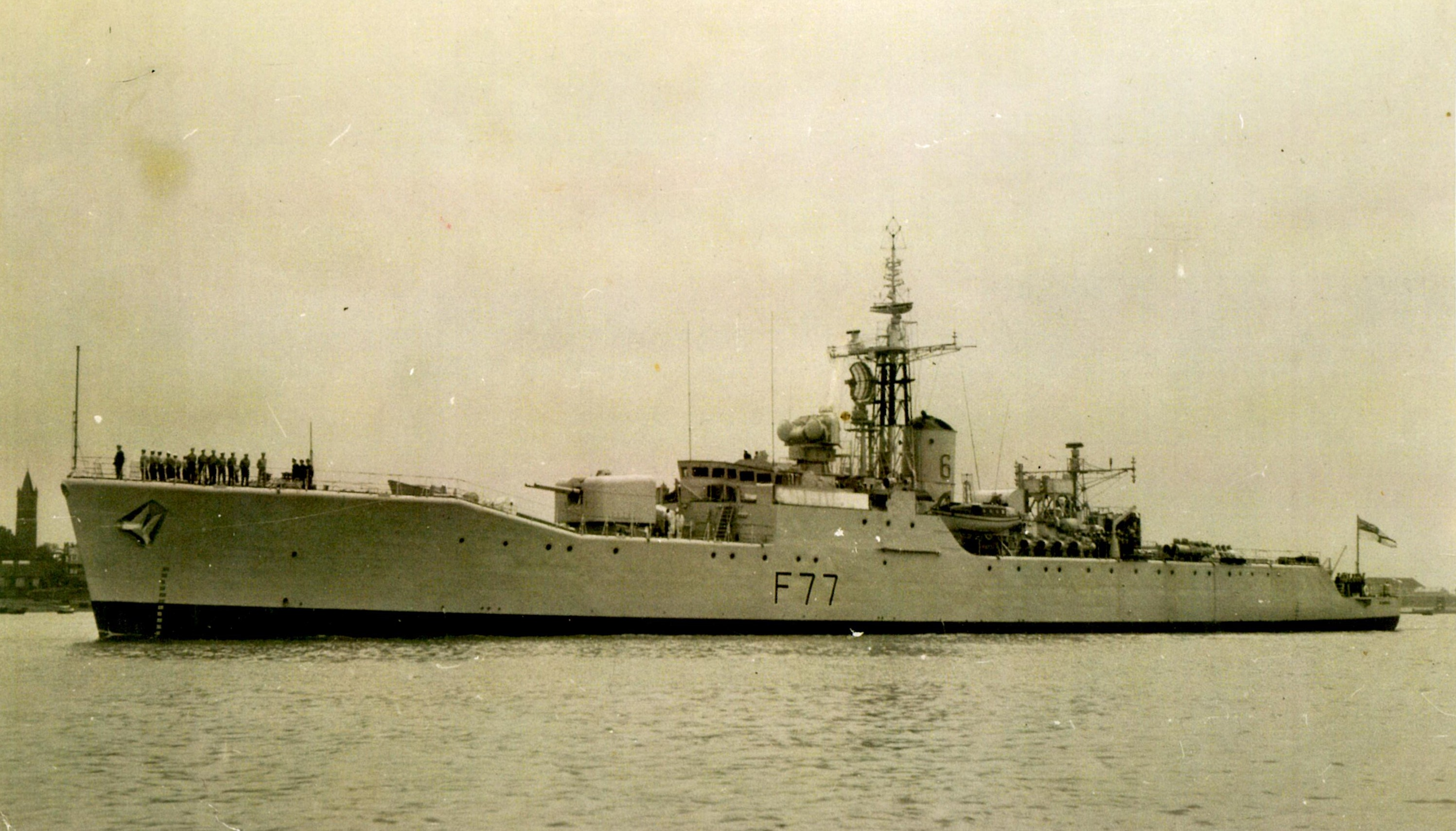 Picture of HMS Blackpool (F77)